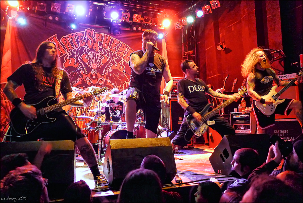 Hatesphere Live Madrid, 19/3/2015